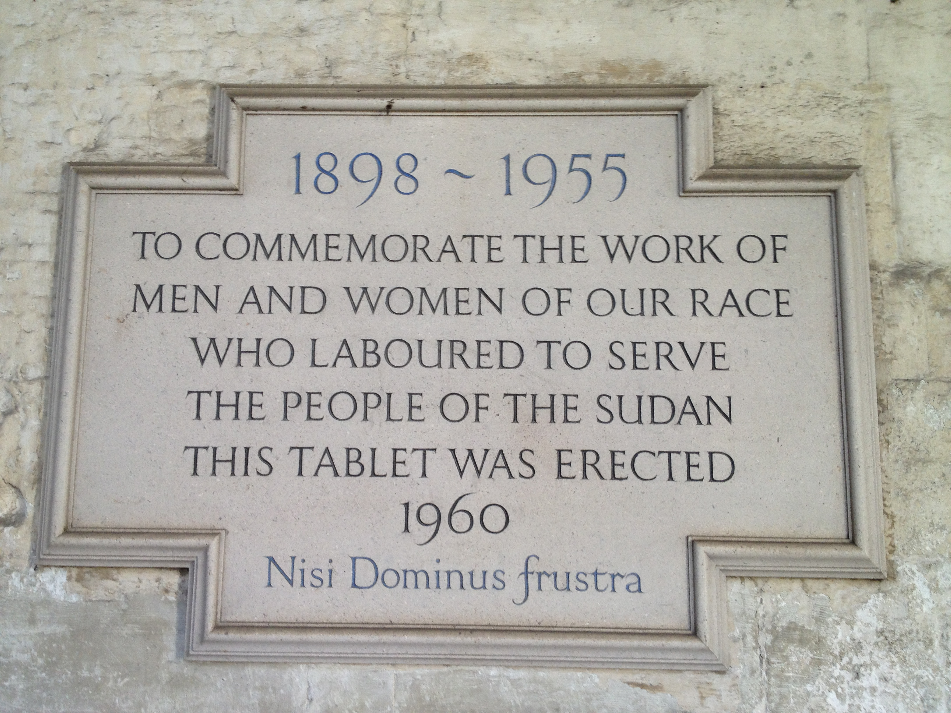 Plaque in the Cloisters of Westminster Abbey, London, UK, to commemorate the British in Anglo-Egyptian Sudan 1898-1955 Text of the plaque: 1898 ~ 1955 TO COMMEMORATE THE WORK OF MEN AND WOMEN OF OUR RACE WHO LABOURED TO SERVE THE PEOPLE OF THE SUDAN THIS TABLET WAS ERECTED 1960 Nisi Dominus frustra (The latin phrase means Everything is vain without the Lord.)